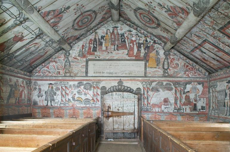 Interior of Ulvö gamla kapell on Ulvön island, Örnsköldsvik municipality, Sweden.